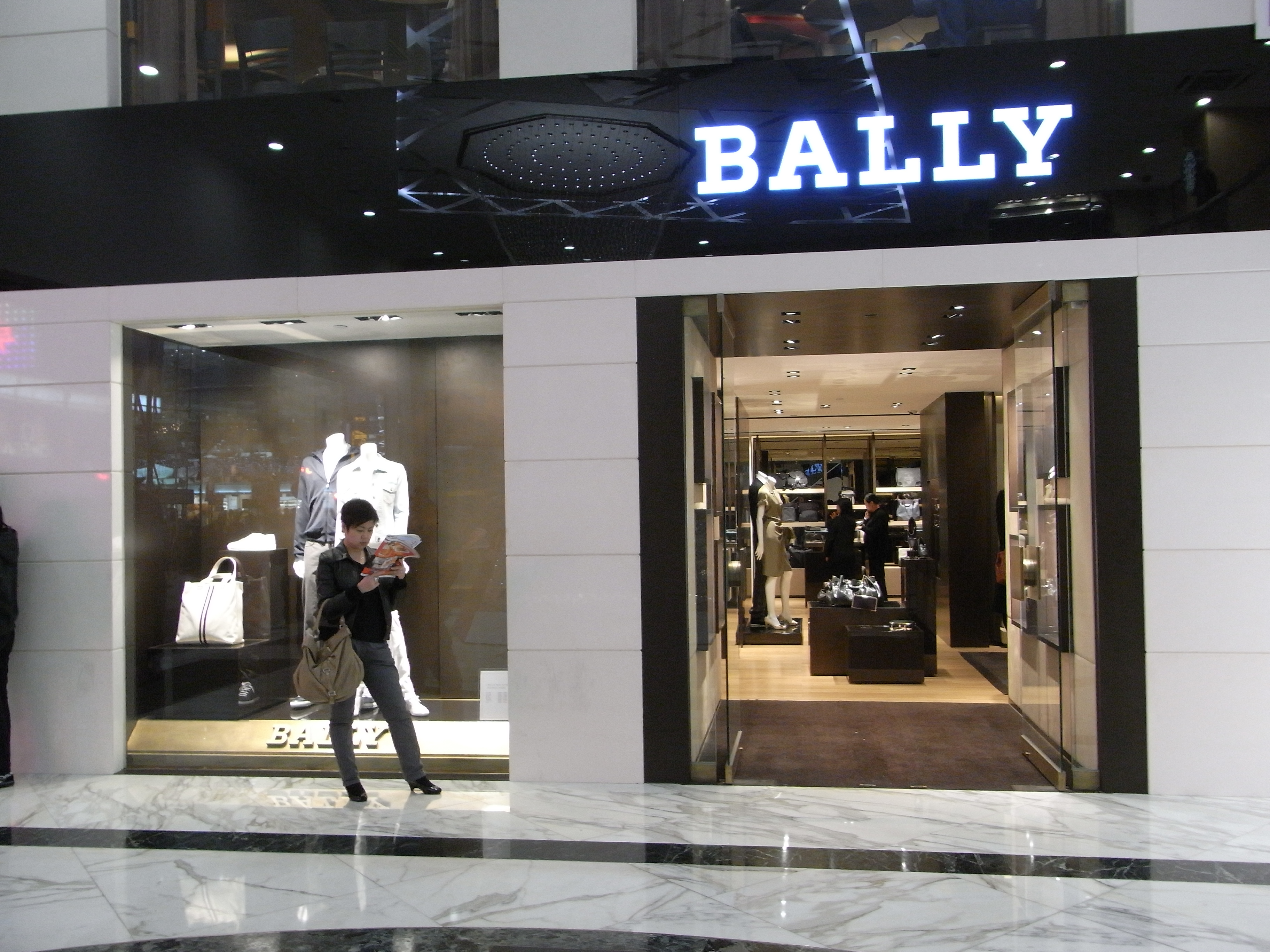 銅鑼灣名店坊商場